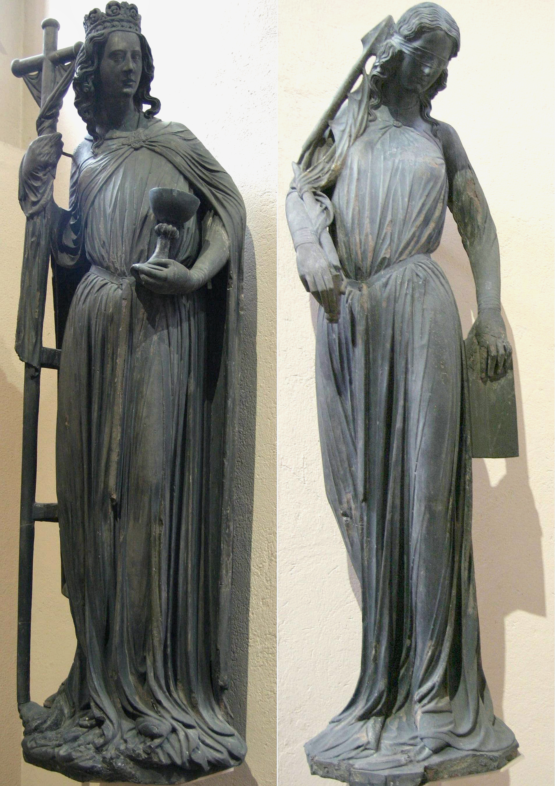 Gothic Statues "Ecclessia" and "Synagogue" from Strasbourg Cathedral, original gothic sculptures in Musée de l'Oeuvre Notre-Dame